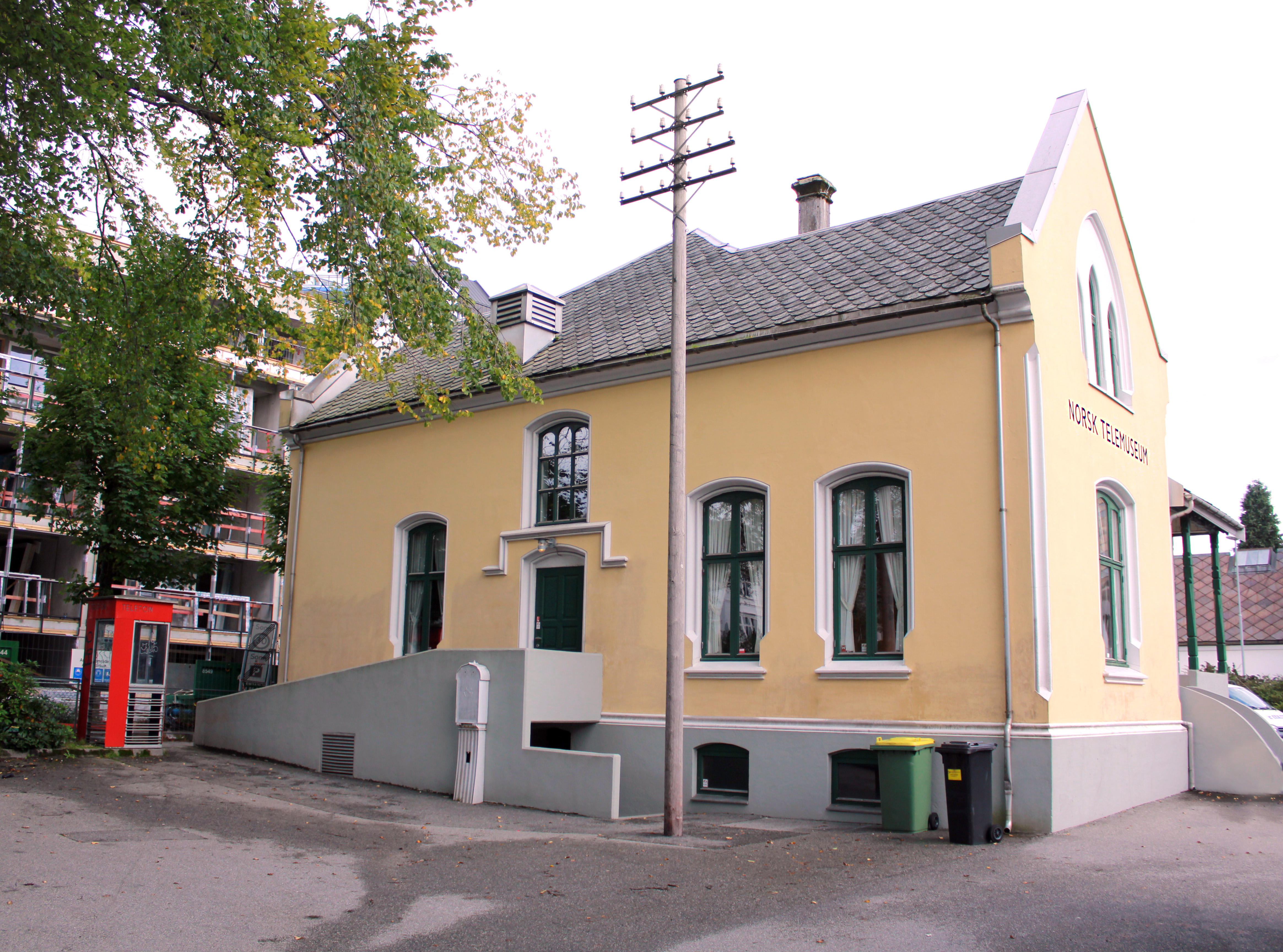 The Norwegian Telecom Museum in Stavanger